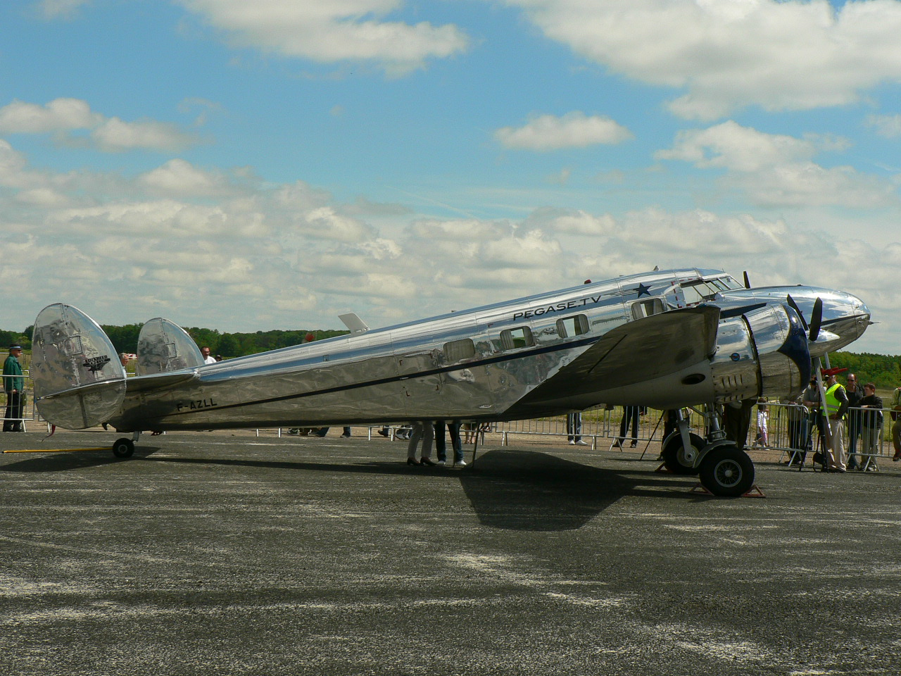 Lockheed 12A Electra Junior F-AZLL at Tours (France) air meeting.